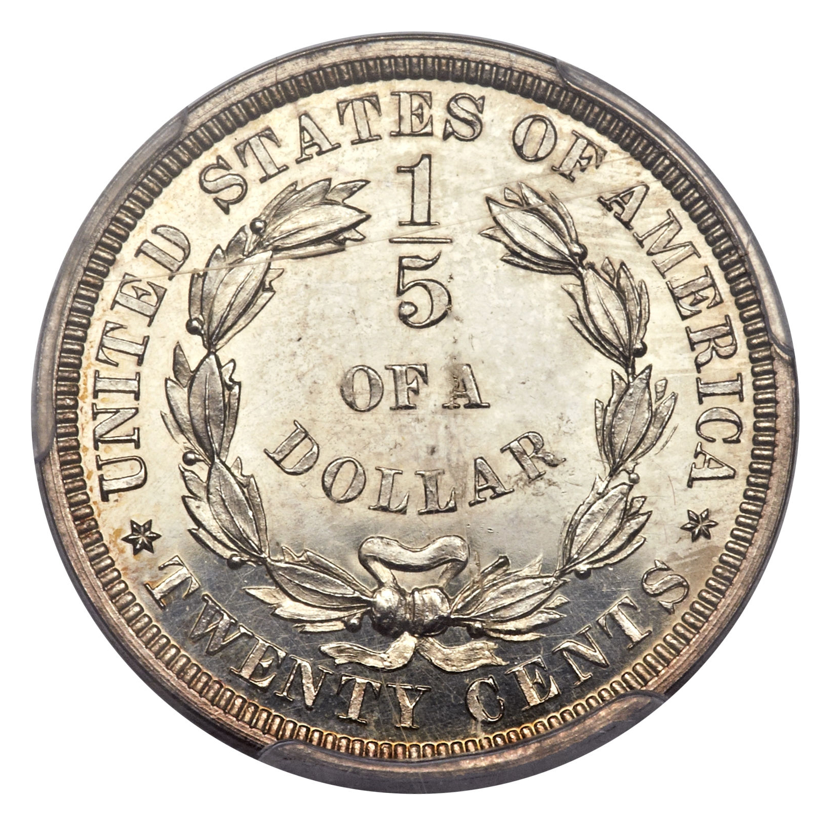 1875 20C Twenty Cents (Judd-1407, Pollock-1550) (rev) (1204-6107)